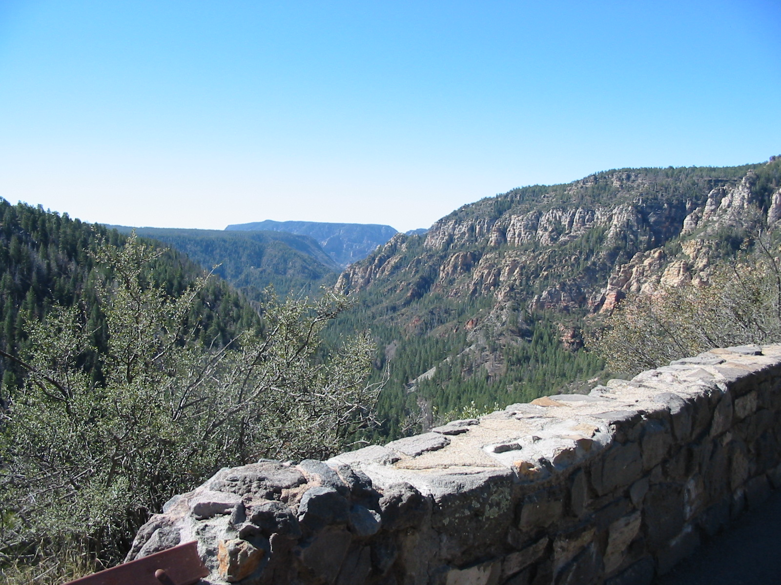 Oak Creek Canyon, AZ.